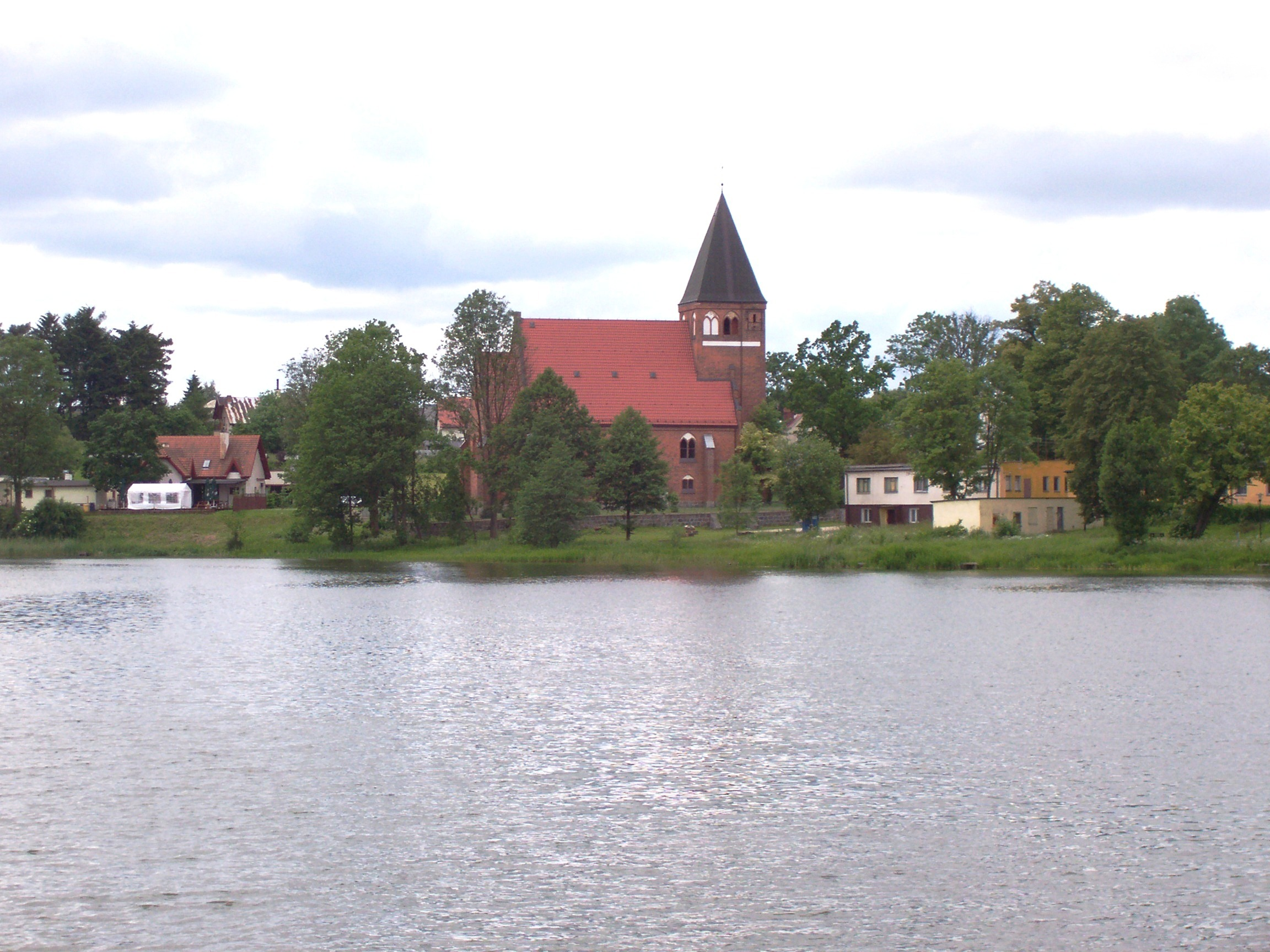 Poland, Przywidz, Church of St. Mary Kaszëbsczi: Przëwidz, Kòscół NMP